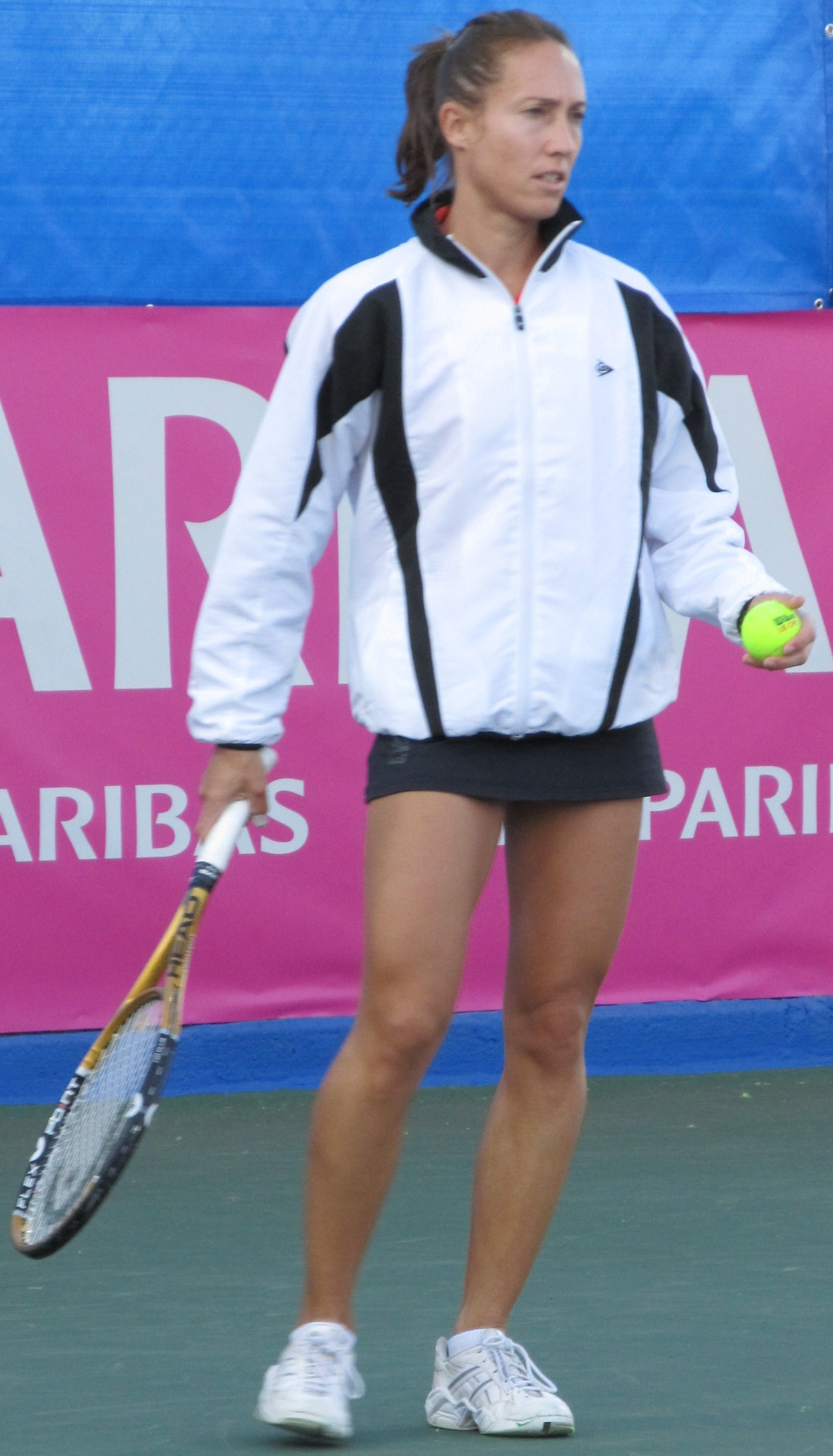 The tennis player Anne Kremer of Luxembourg during her match against Julia Glushko of Israel in the 1st day of Fed Cup Group I 2011 Europe/ Africa in Eilat, Israel